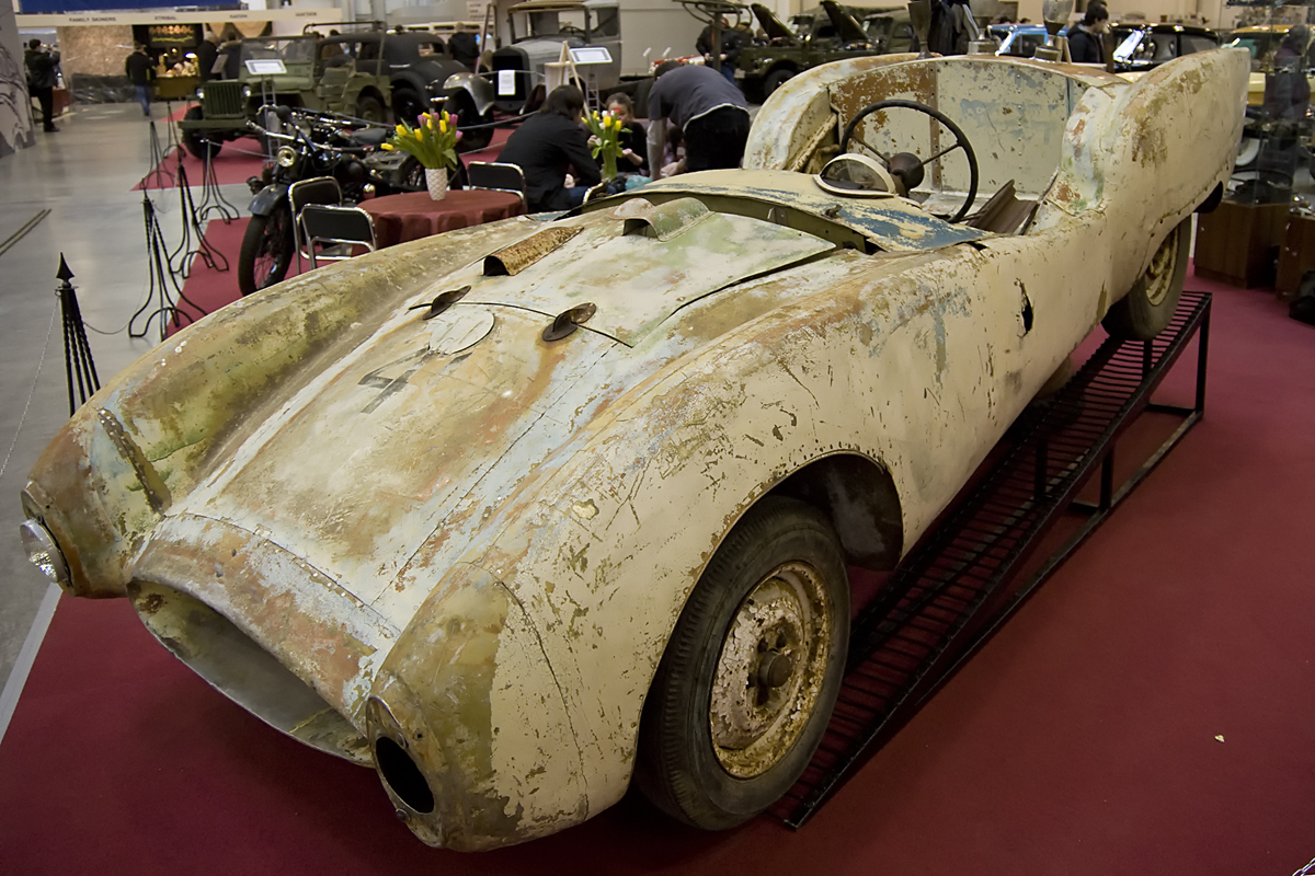 "Kiev-sports" (the USSR, 1959). From three let out cars, one has remained. It is found casually